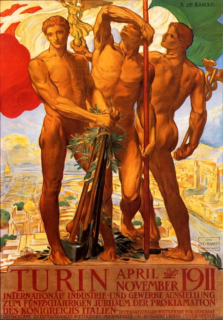 text in German